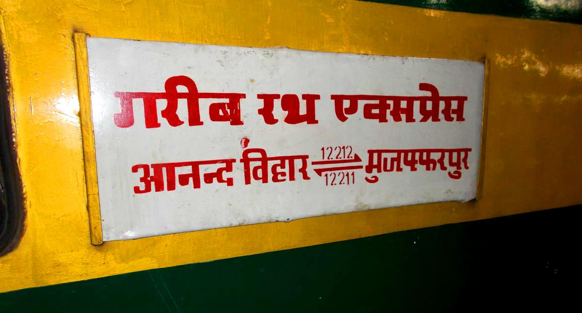 Muzaffarpur Anand Vihar Terminal Garib Rath Express Logo